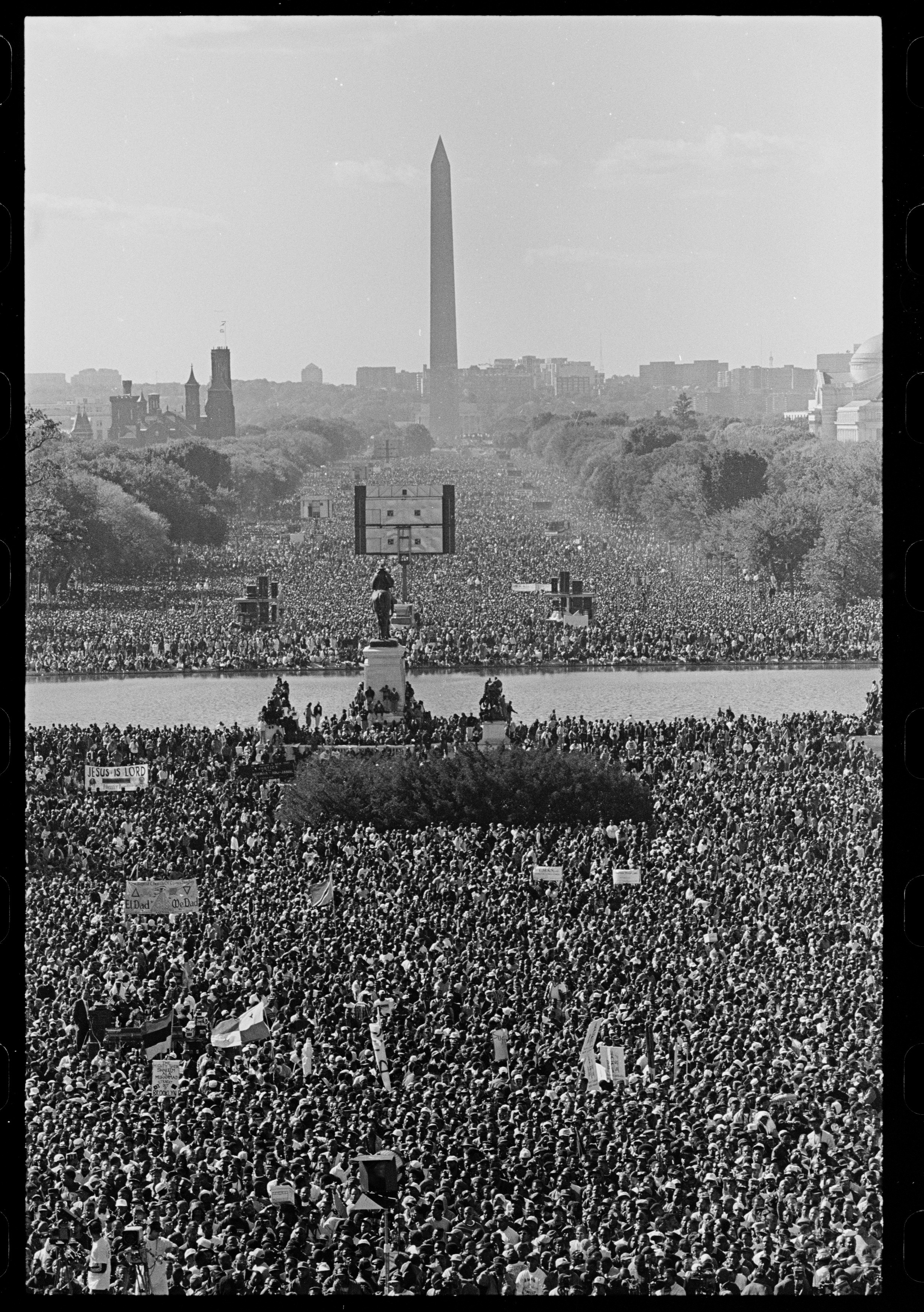 Read more about the collection in this Picture This blog post: Roll Call Photographs: Glimpsing Congress and Capitol Hill, 1988-2000 View images from the collection that have been digitized. [Aerial view of marchers on the National Mall during the Million Man March, looking towards the Washington Monument], [1995 Oct. 16] 1 photograph : negative ; film width 35mm (roll format). Notes: Title devised by Library staff. Date from caption information for contact sheet ROLL CALL-1995-841 or corresponding negative sleeve. Contact sheet available for reference purposes: ROLL CALL-1995-841, frame 4. Contact sheet or negative sleeve caption: "Million Man March". Forms part of: CQ Roll Call Photograph Collection. Subjects: Million Man March--(1995 :--Washington, D.C.) African Americans--Political activity--Washington (D.C.)--1990-2000. Crowds--Washington (D.C.)--1990-2000. Demonstrations--Washington (D.C.)--1990-2000. Format: Aerial views--1990-2000. Film negatives--1990-2000. Rights Info.: No known restrictions on publication. Repository: Library of Congress Prints and Photographs Division Washington, D.C. 20540 USA Higher resolution image is available (Persistent URL): Call Number: LC-RC15-1995-841, frame 4